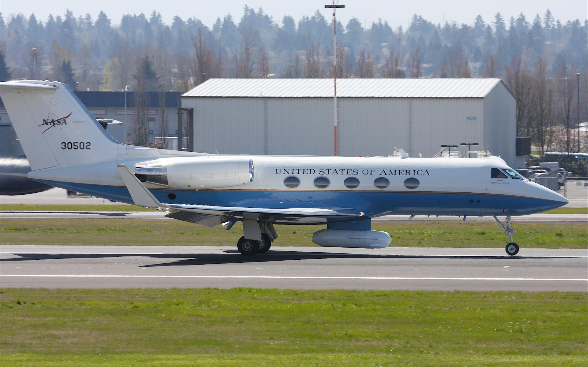 The NASA Multi-Role Cooperative Research Platform aircraft on a runway, seen carrying the Uninhabited Aerial Vehicle Synthetic Aperture Radar (UAVSAR) pod underneath. This aircraft is a Gulfstream III (C-20A), tail number 30502 (83-0502), operated from the Dryden Flight Research Center.